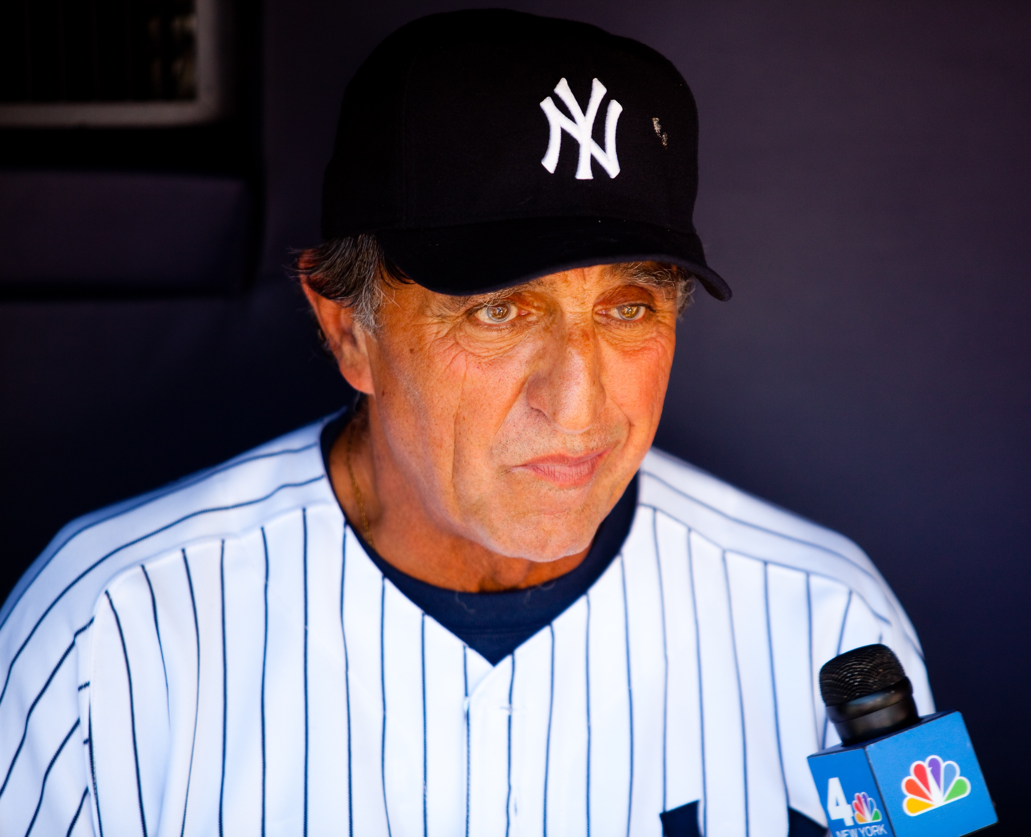 Yankee Stadium -- July 19, 2009 Joe Peppitone.